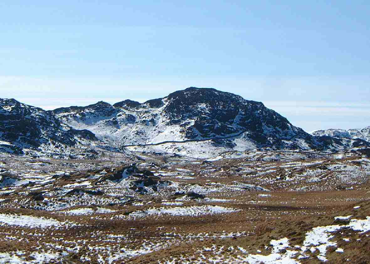 Personal photograph taken on March 22nd 2006 by Mick Knapton